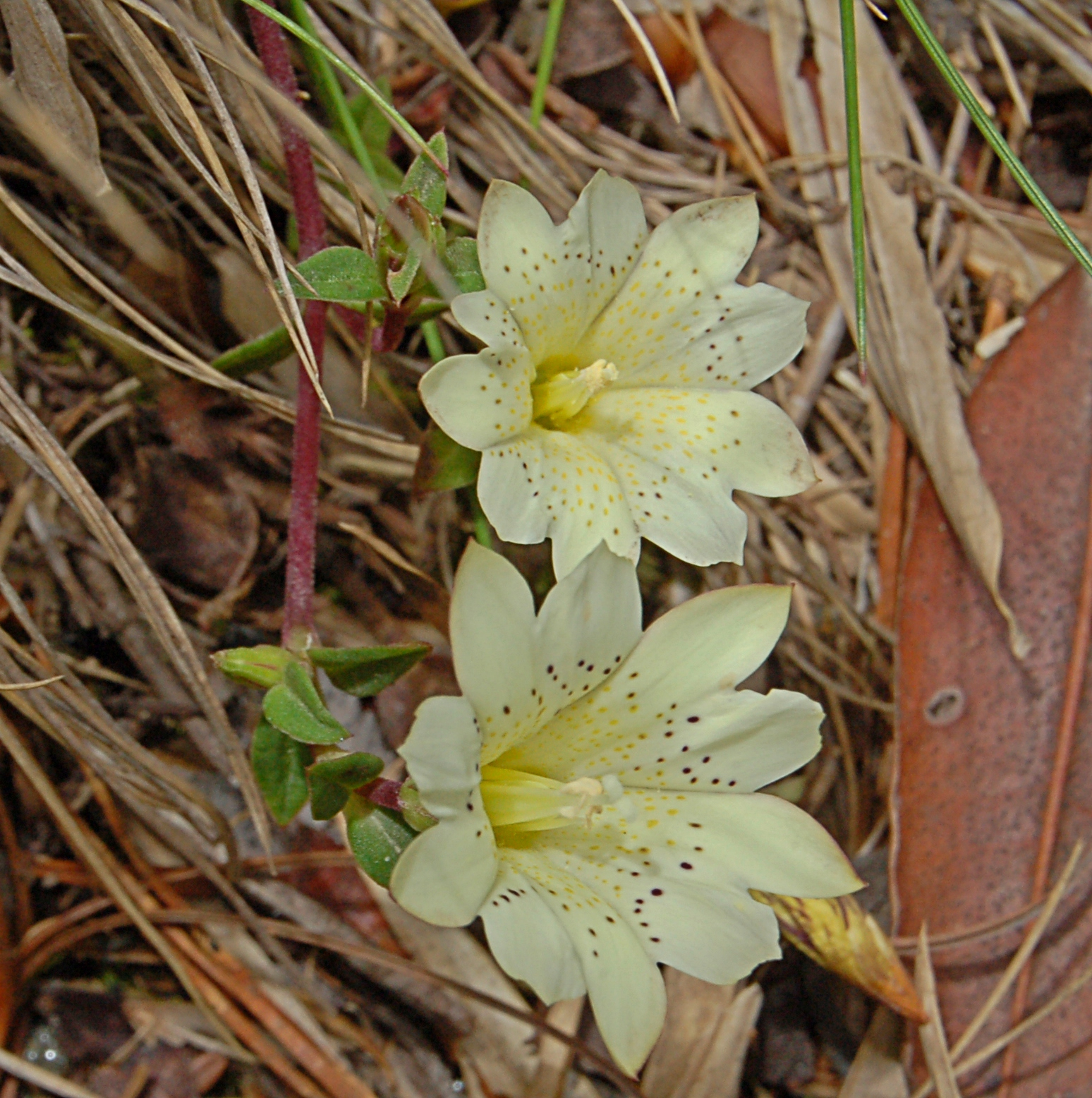 Gentiana scabrida var. scabrida. Photo taken in Jade Mountains, 2011.